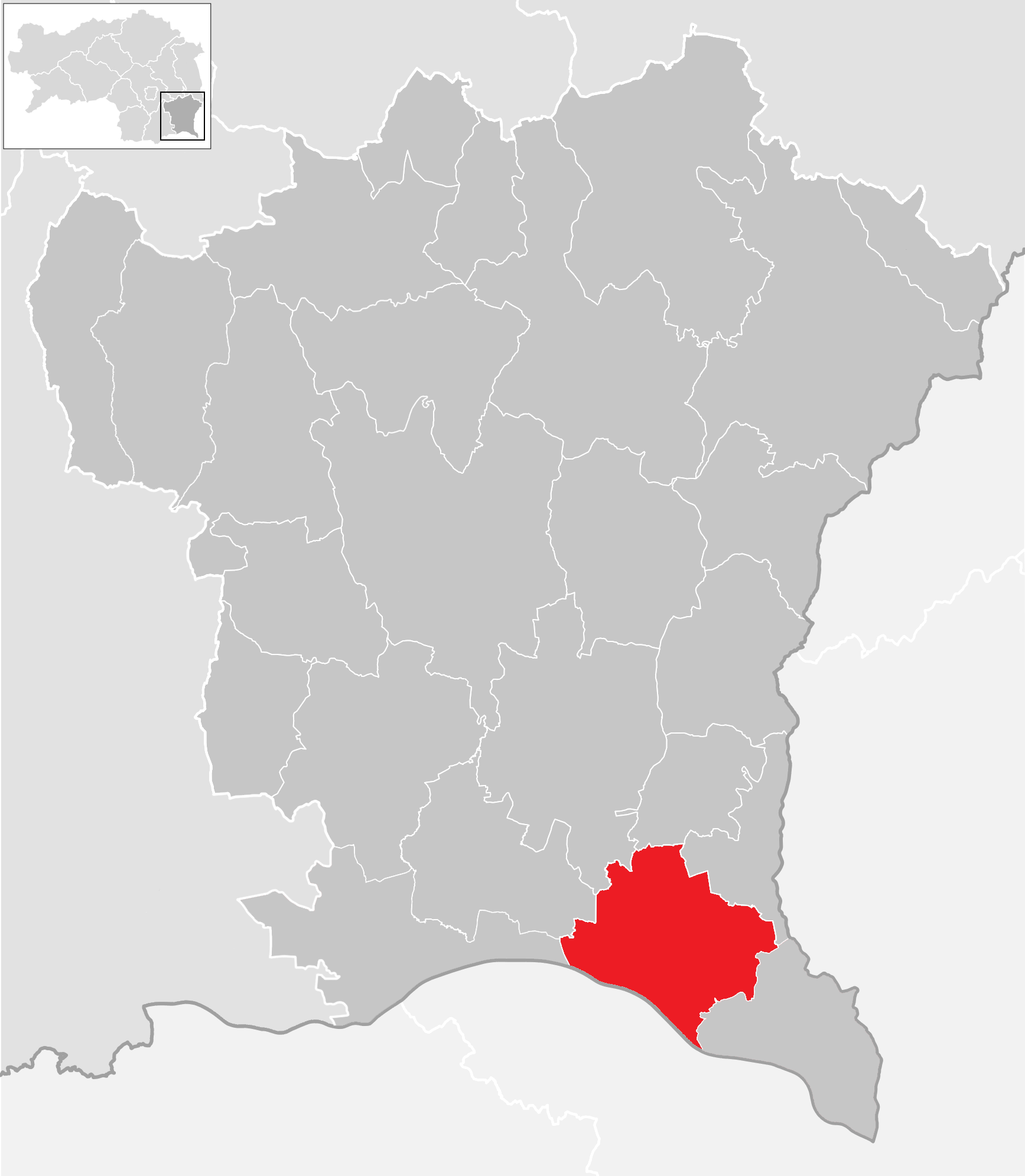 district Südoststeiermark